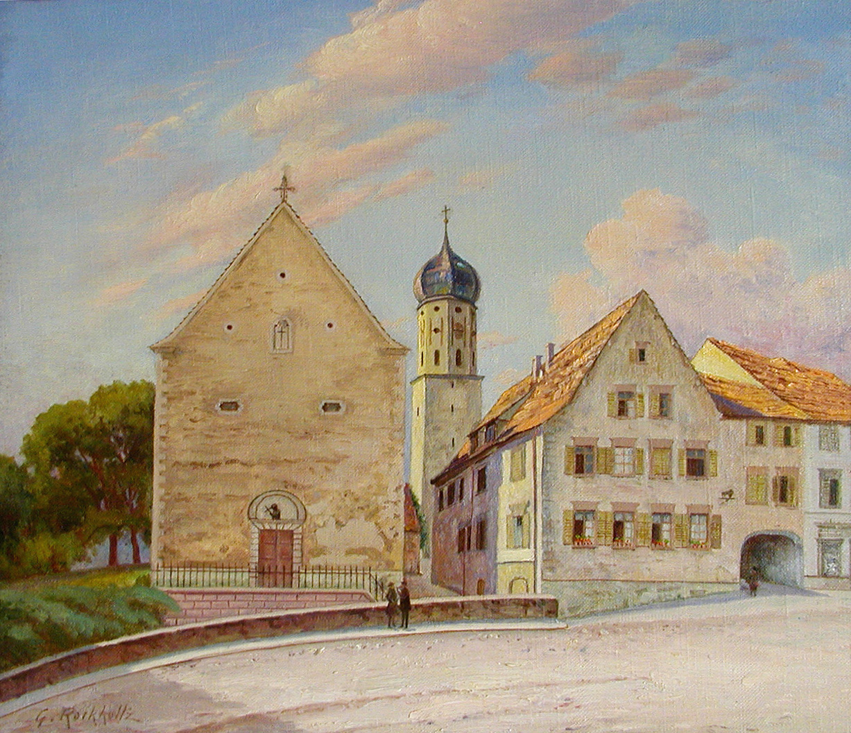 Gustav Rockholtz, St. Oswald mit Gasthaus Löwen, Stockach